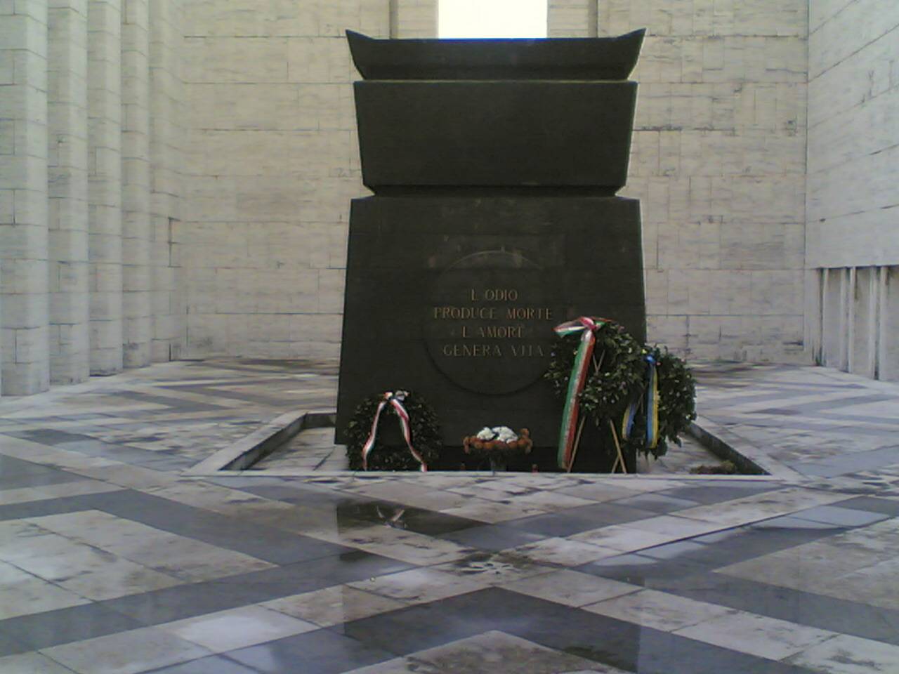 Medea (province of Gorizia, Italy) - Monument for people dead in any war